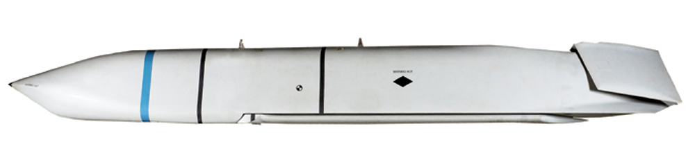 AGM-158 Joint Air-to-Surface Stand-off Missile (JASSM) Primary function: GPS/INS-guided air-to-surface missile. Dimensions: Length 14 ft. Range: More than 230 miles.